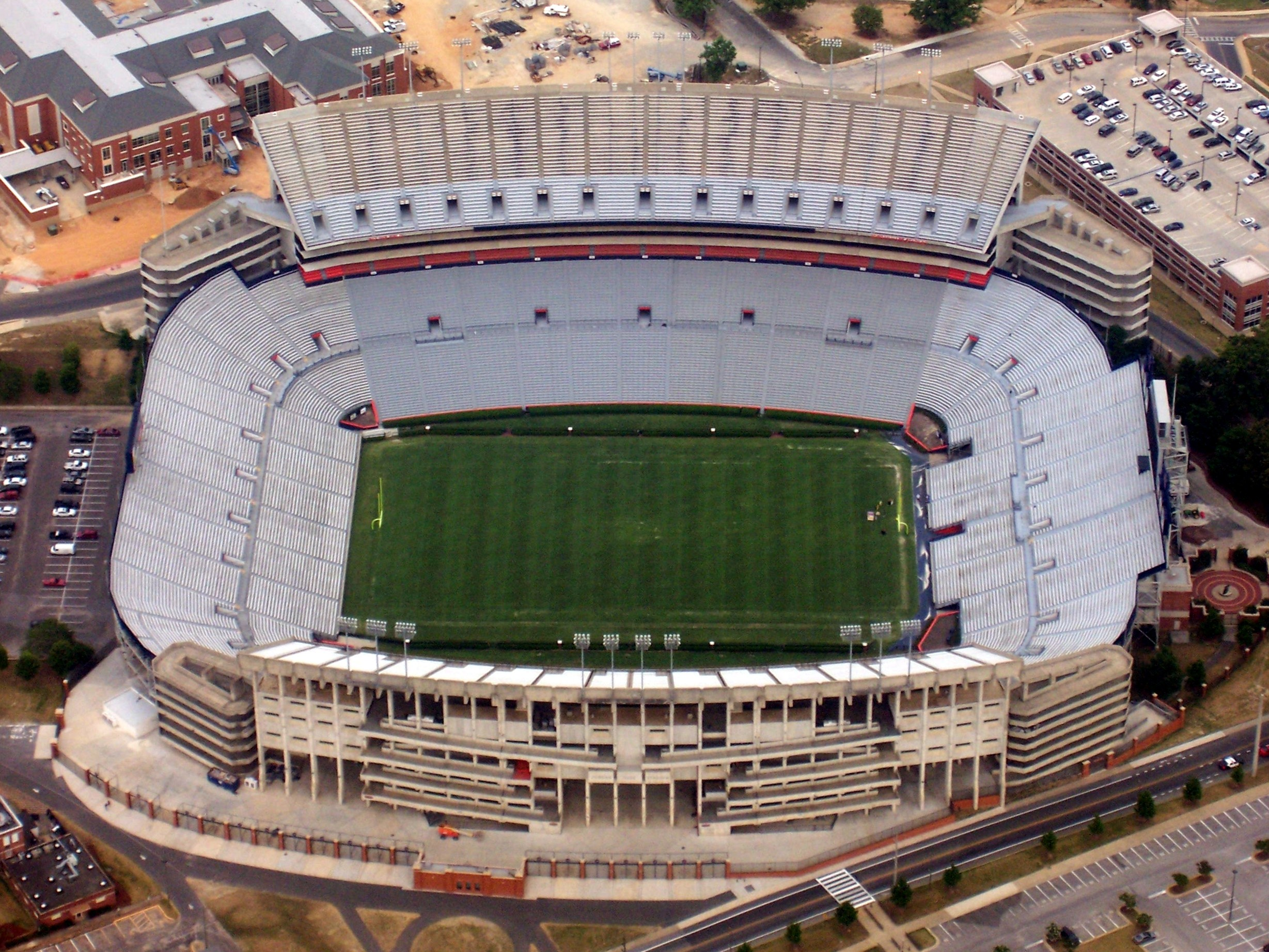 Jordan-Hare Stadium in Auburn, Alabama, on the campus of Auburn University. Image was taken from the west side of the stadium, from ~1600 feet above ground level.